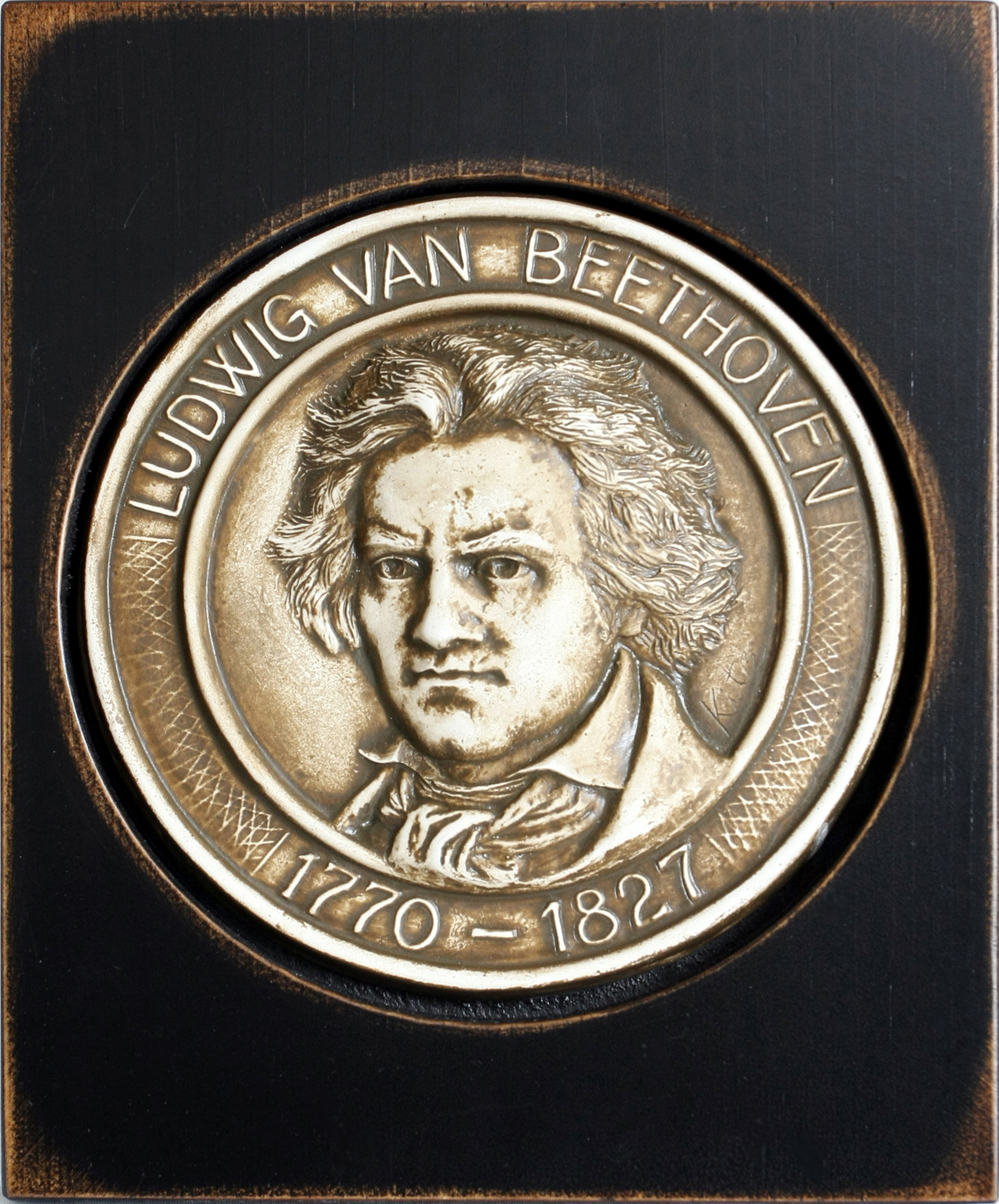 Medallion made in hydrostone on wood (10'x8'x1') by Emilian Pop Kitz